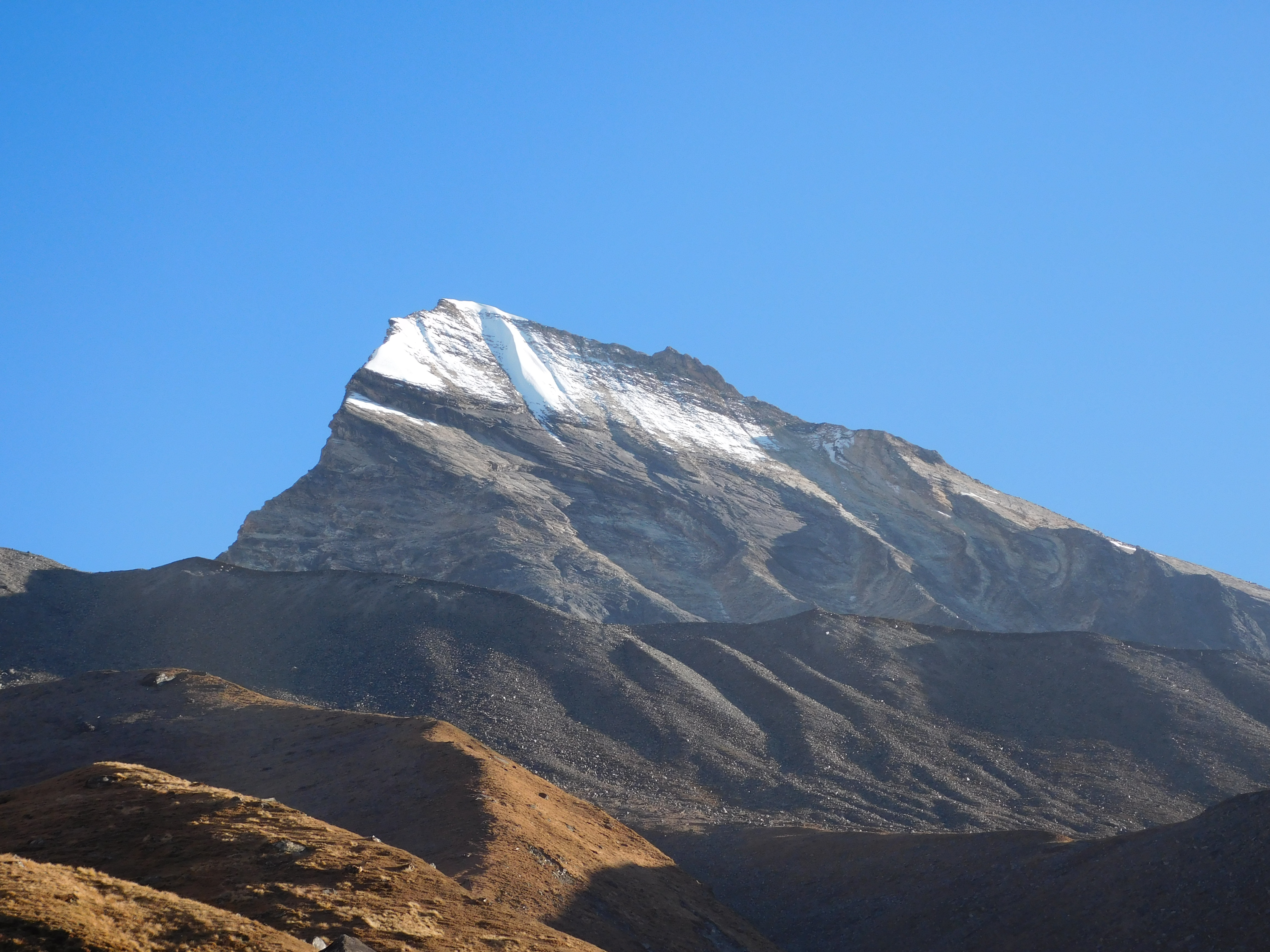 Tharpu Chuli from Base Camp